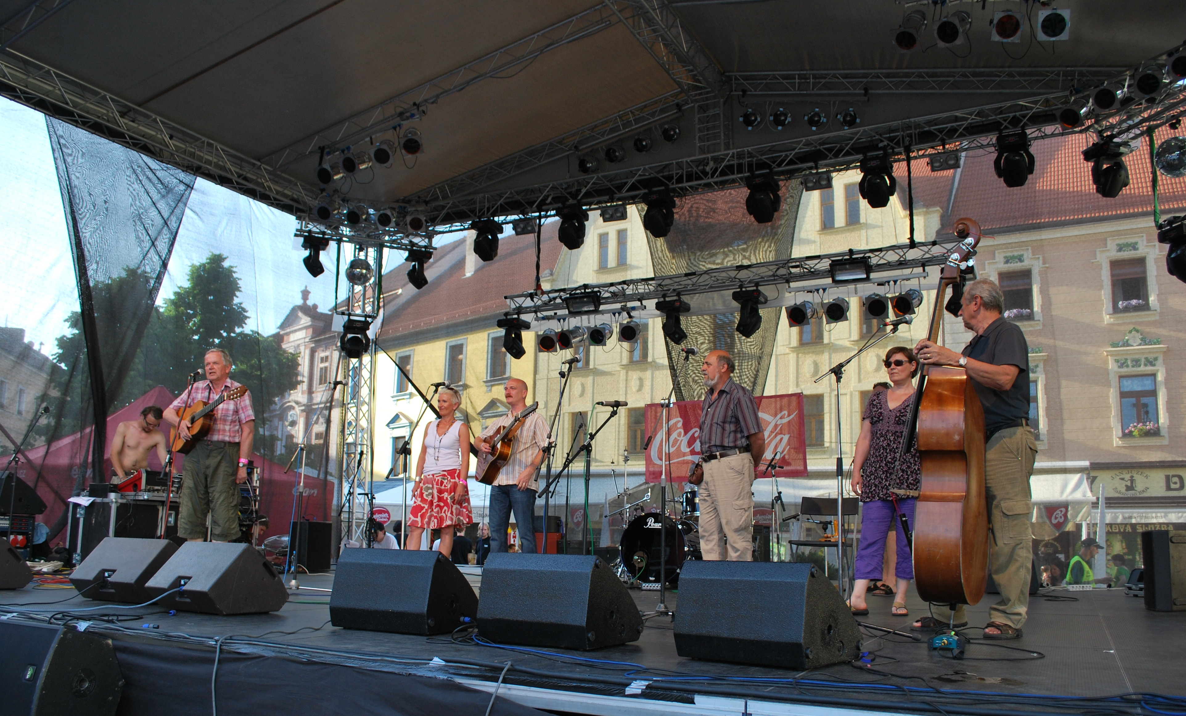 Czech music grupe Spiritual kvintet during concert in Písek town, Czech Republic.